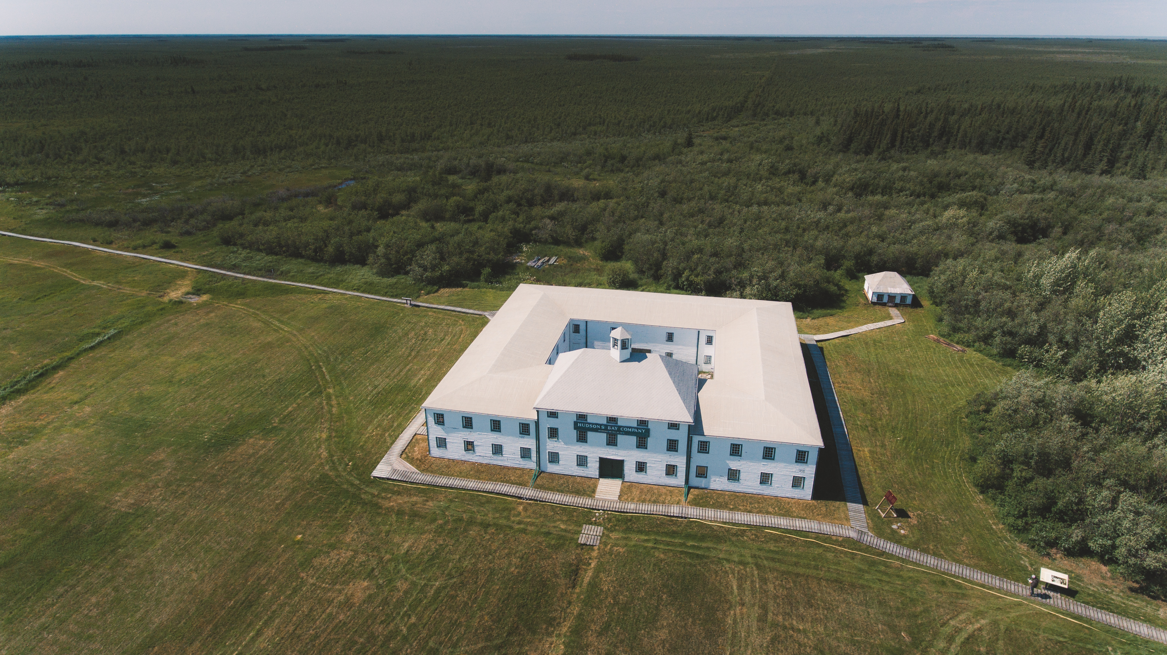 York Factory, Manitoba.